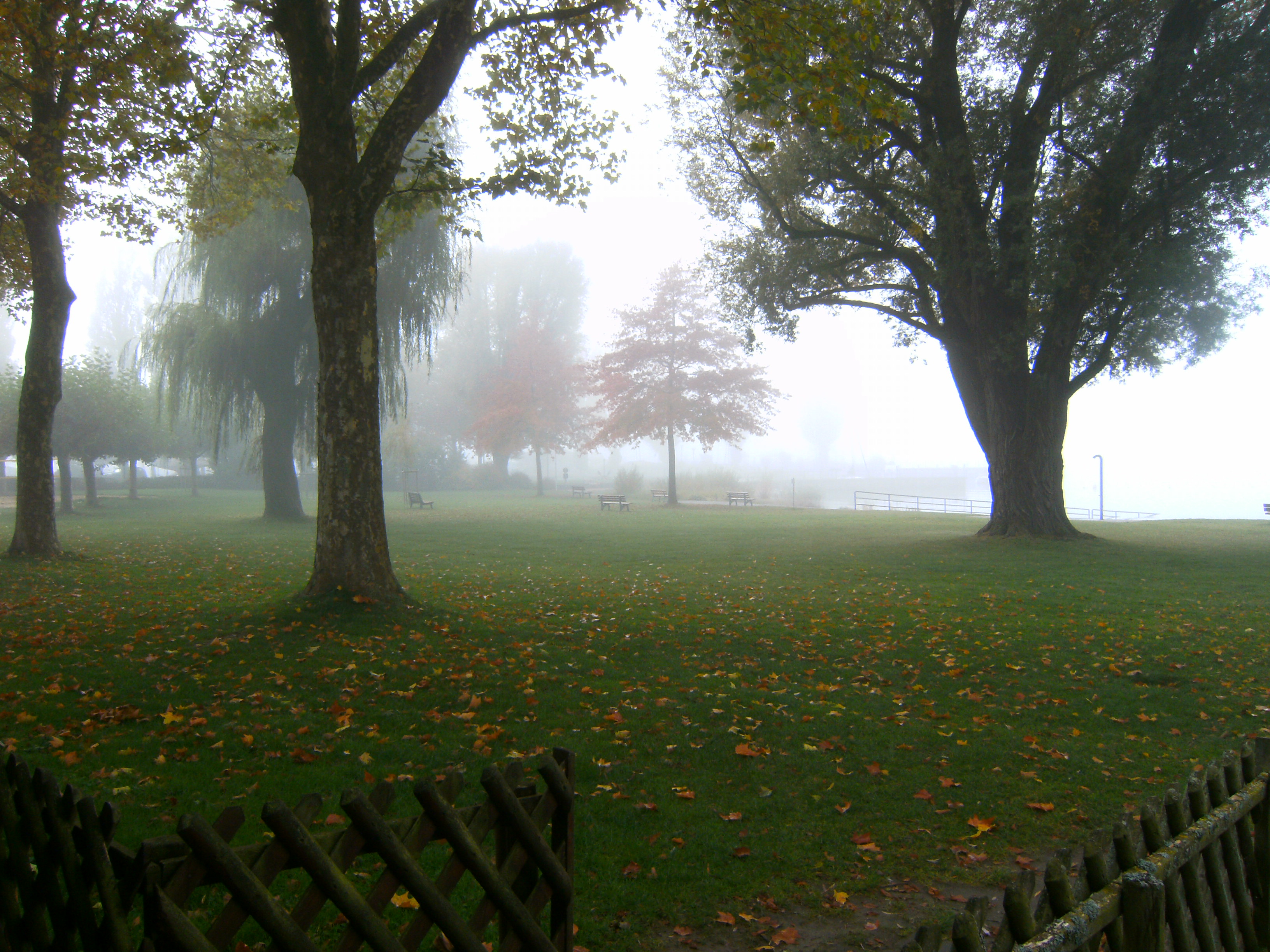 Unteruhldingen, part of Uhldingen-Mühlhofen, Germany: Open-air bathing place at Bodensee (Lake Constance) in fog.